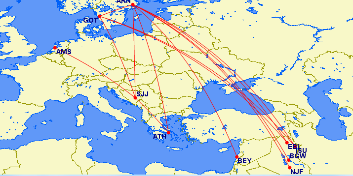 BWA destination map